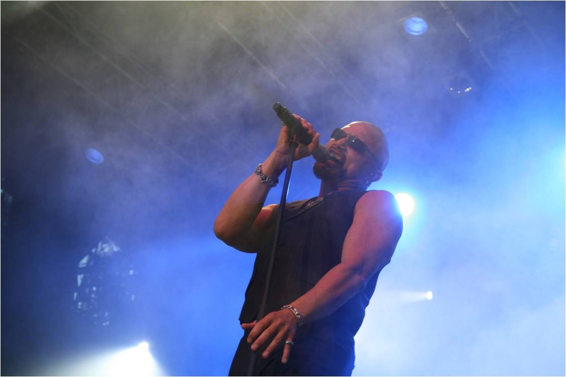 Queenrÿche at Norway Rock Festival 2010